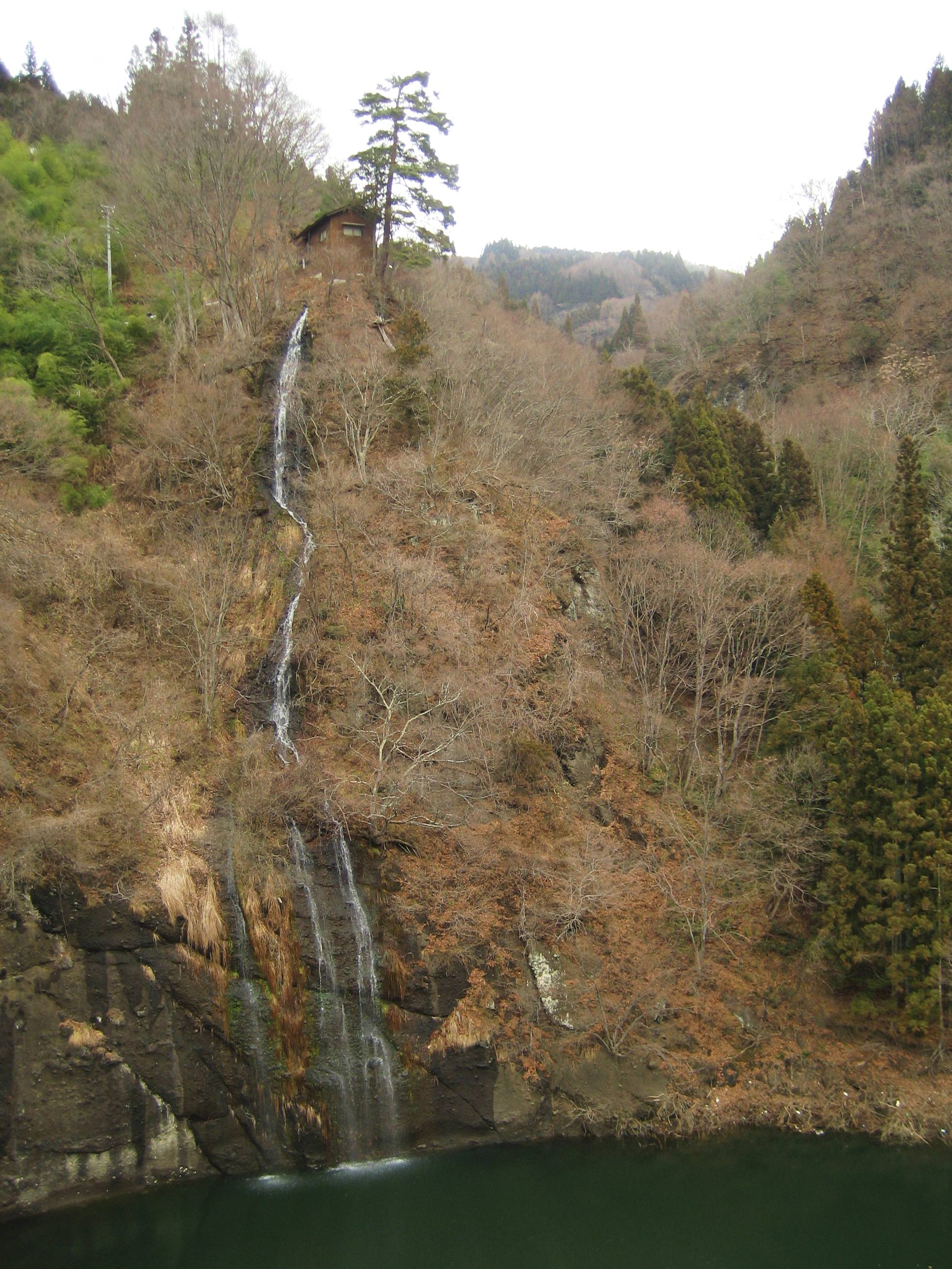 Goshikinotaki in Susobanakyō.